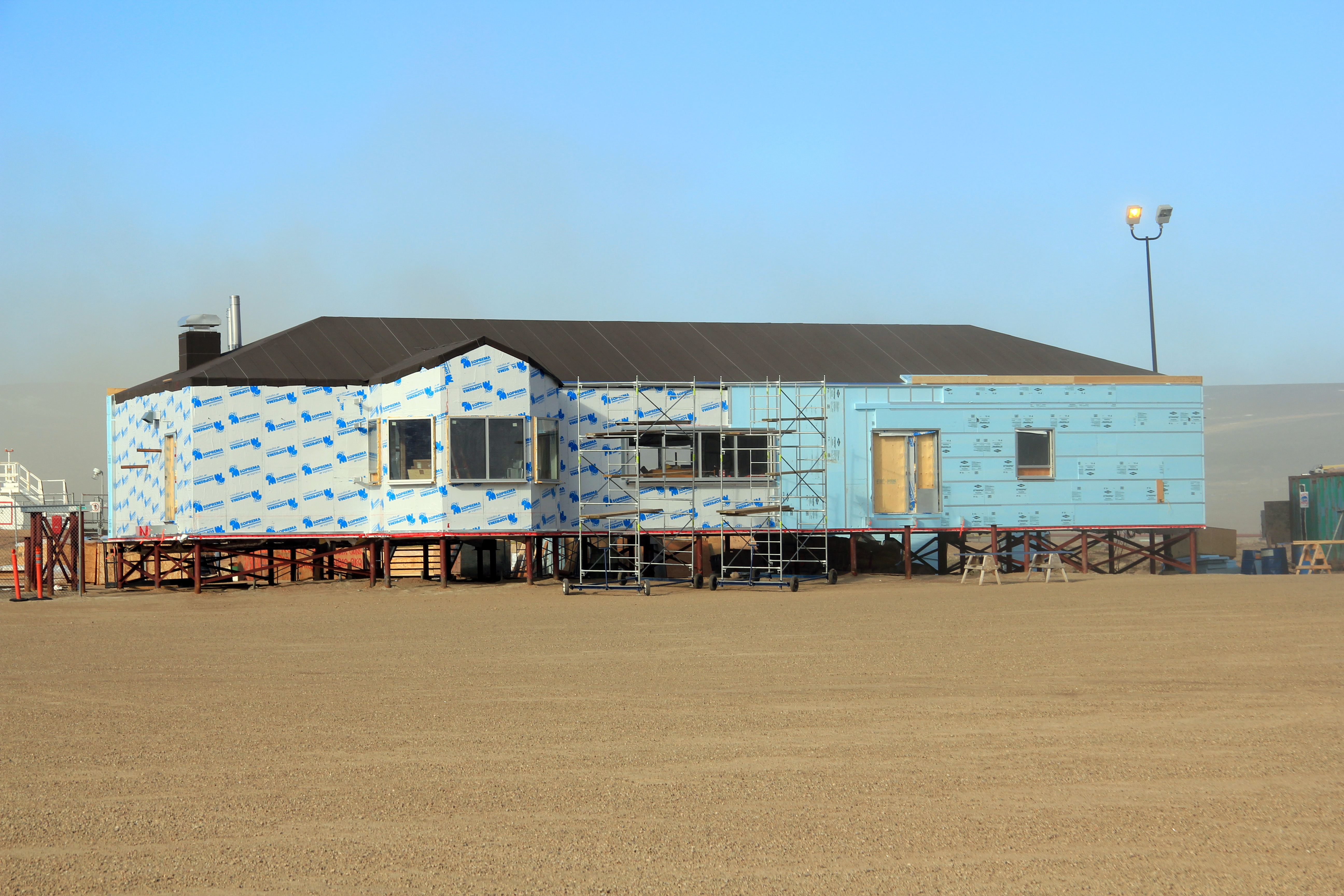 Still under construction in the summer of 2011